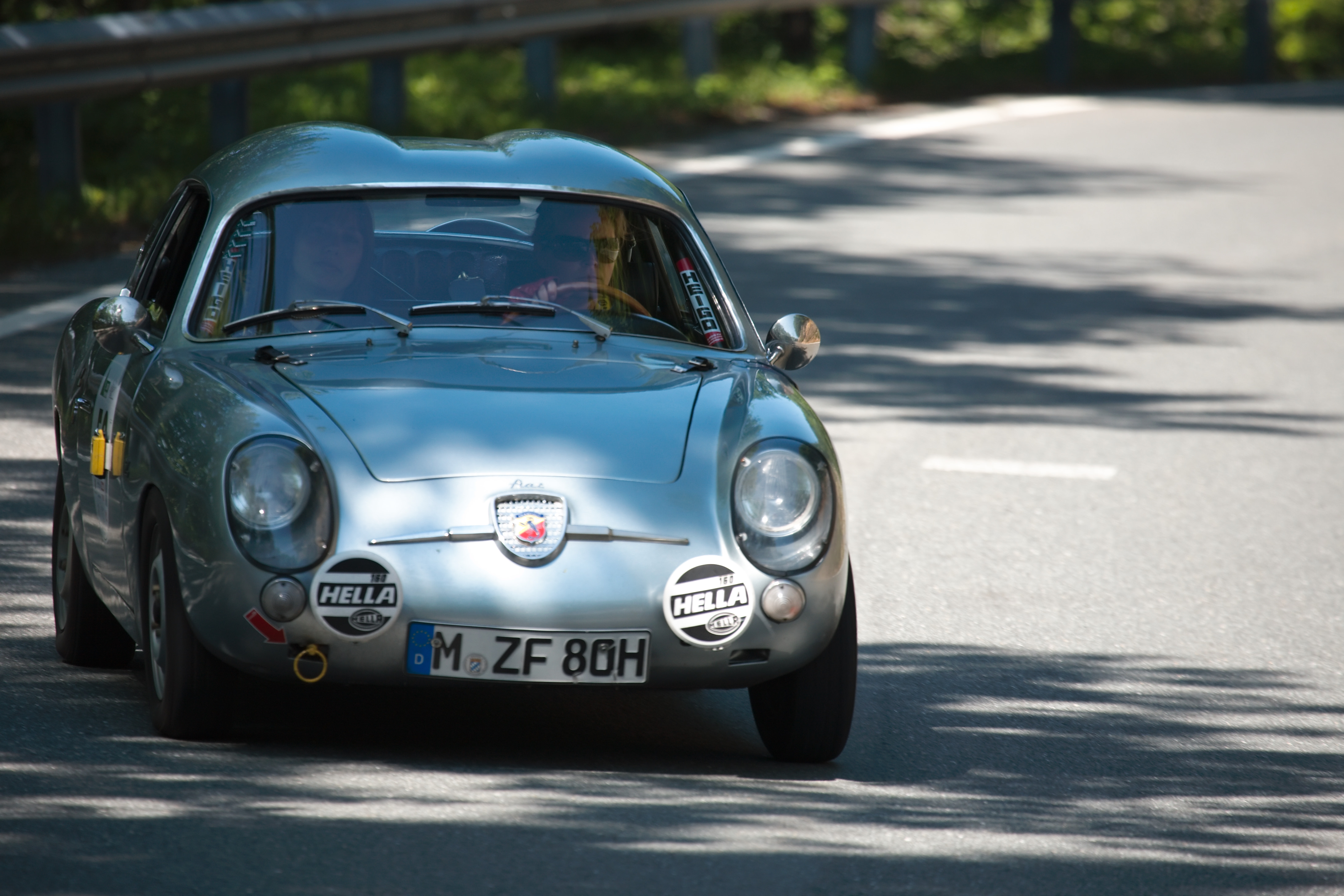 Abarth 750 GT Zagato at Gaisbergrennen 2009